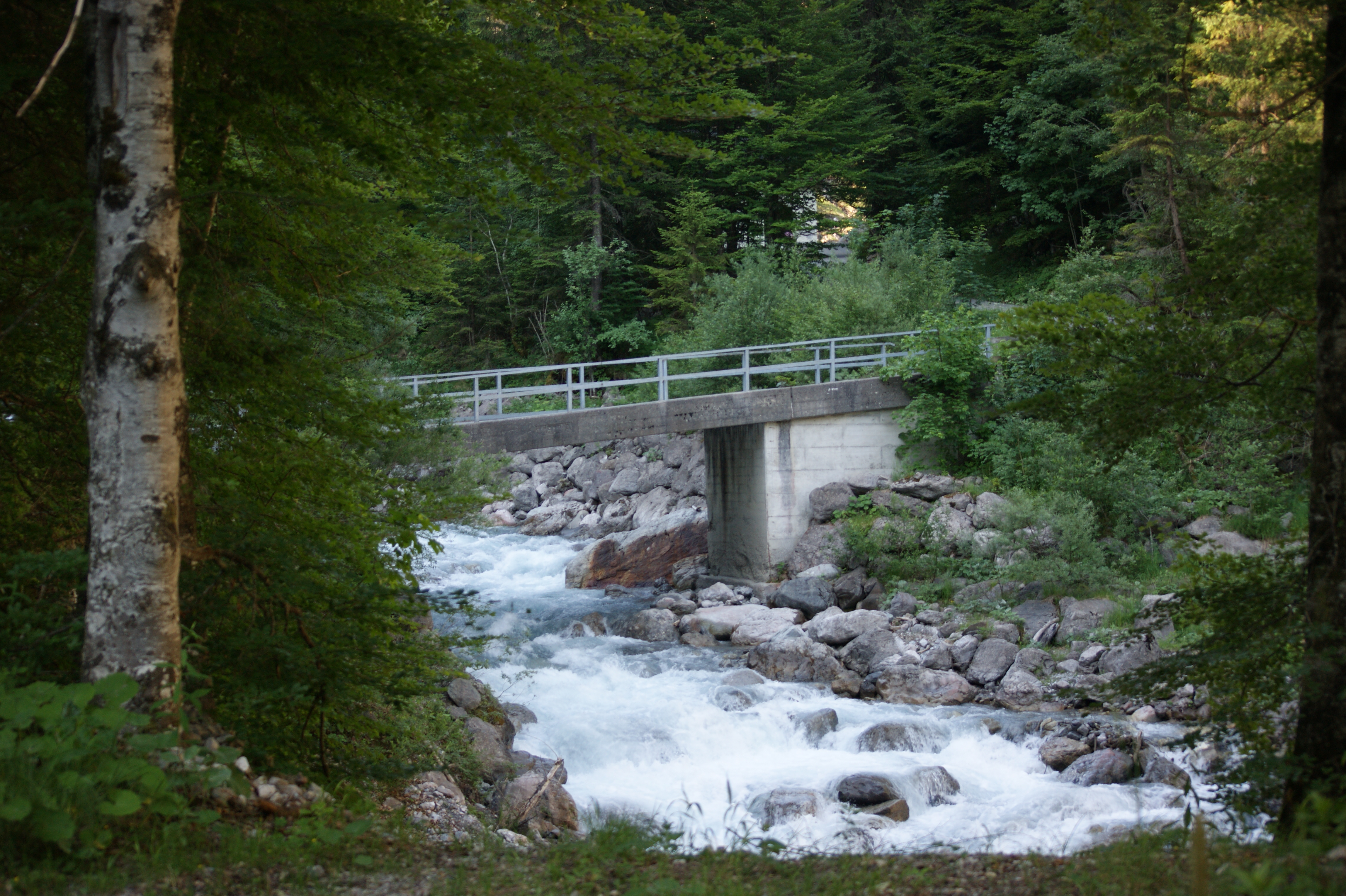 The Gamperdonaweg is a street in the muncipality of Nenzing between the main town (Nenzing) and the district Nenzinger Himmel (Gamperdona Alpe) in Vorarlberg, Austria. The street is only accessible for authorized persons and partially only single lane. There is a ban on bicycles. Next to the Gamperdonaweg runs the Mengschlucht (canyon) with the river “Meng”. Plot: Kuehbruck.